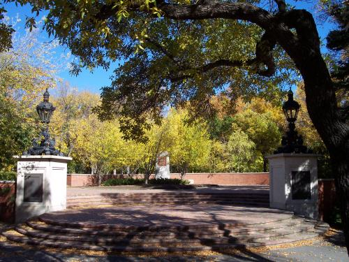 This is a picture I took myself in Regina.